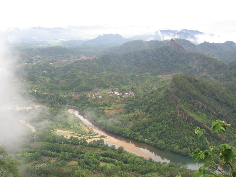 View from kings peak（大王峰） in Wuyishan mountians (武夷山), north west Fujian, China.